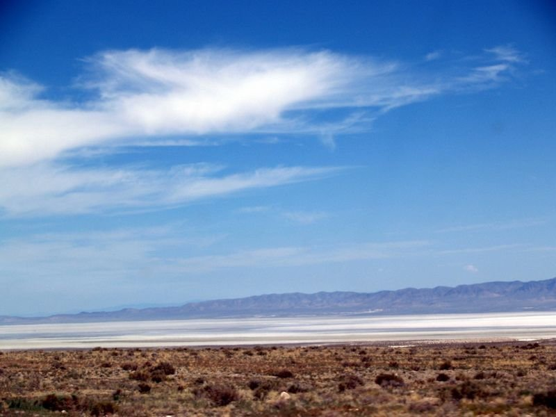 A photo of Sevier Dry Lake taken from US 50 in 2009. Please acknowledge "Phil Konstantin" as the creator of this photograph.